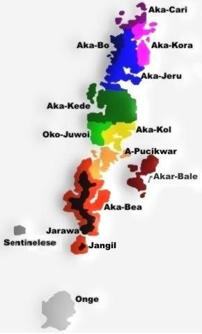 Ethnolinguistic map of the precolonial Andaman Islands